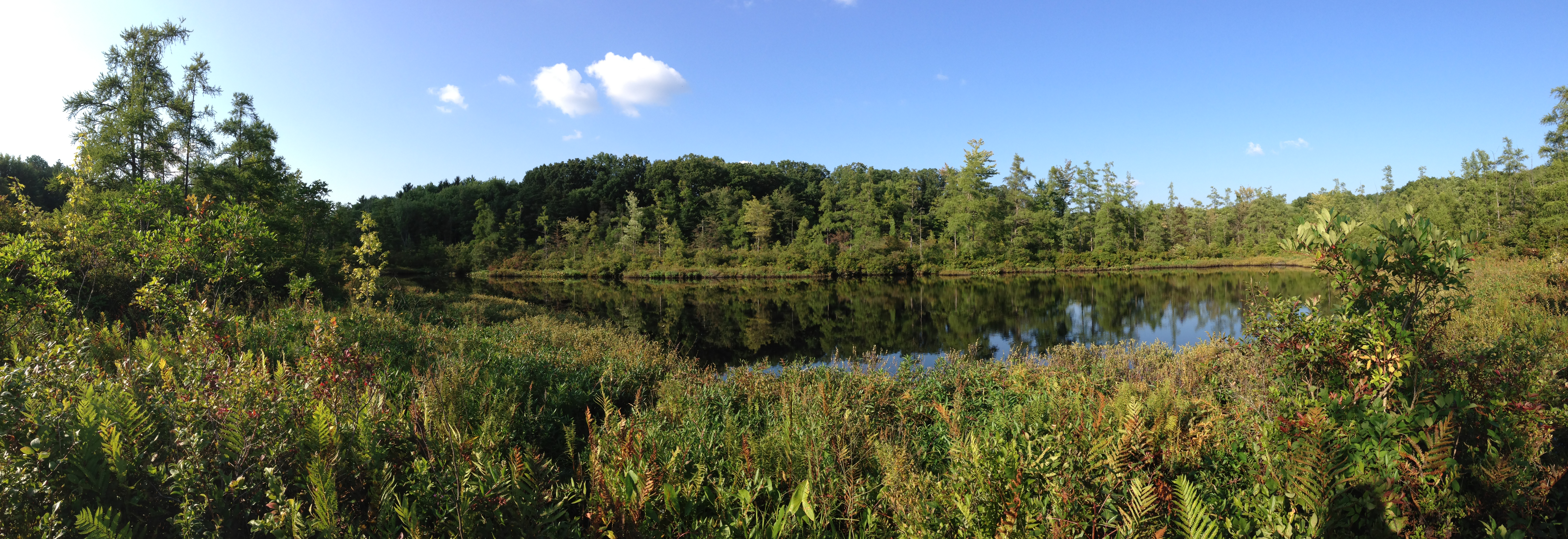 Triangle Lake Bog State Nature Preserve - Panorama of Triangle Lake, Aug 2013